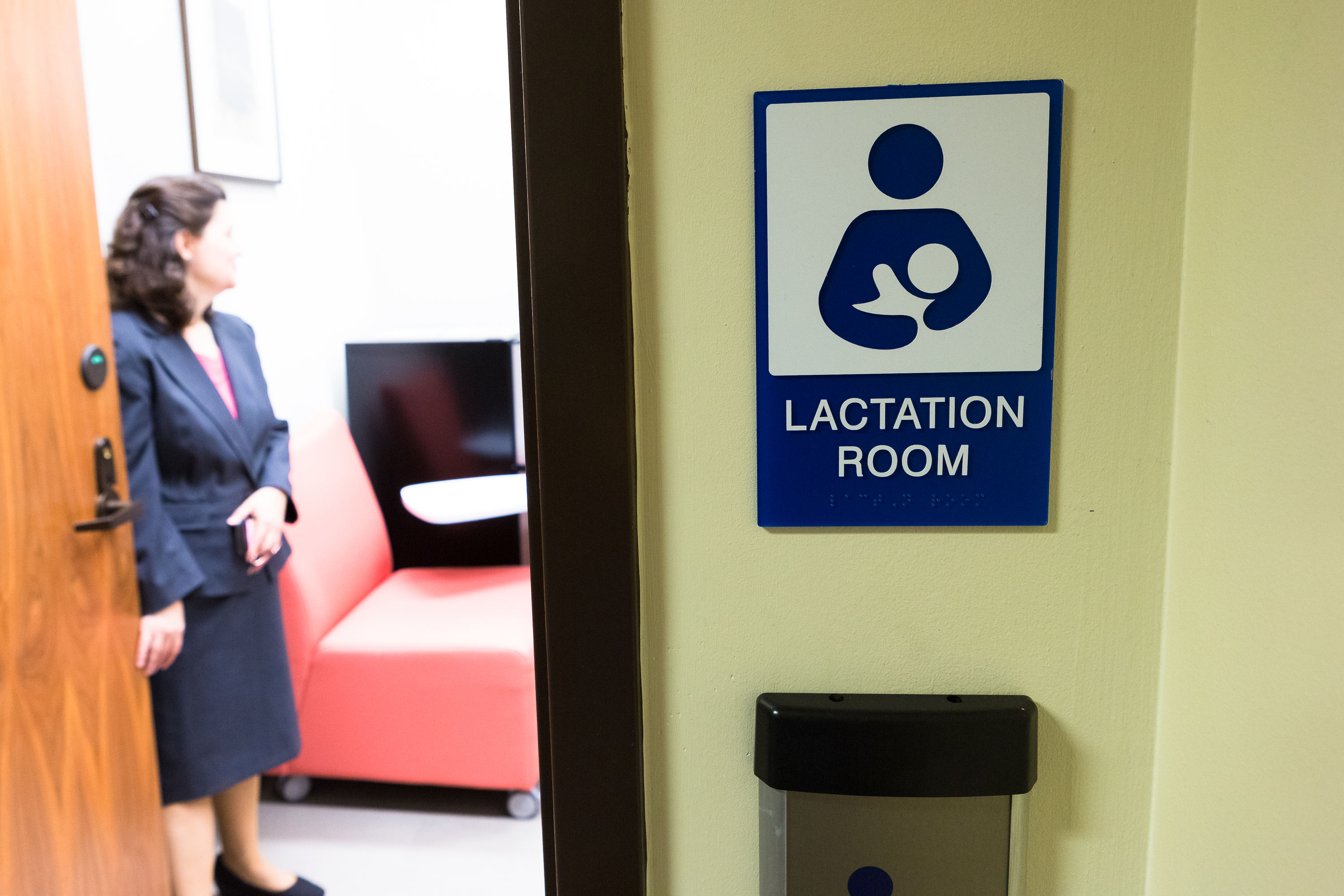 2 May 2016 - Washington, D.C. - Secretary of Labor Thomas Perez stops by the newly created lactation rooms at the Department of Labor. Joining him on the tour were Latifa Lyles (Women's Bureau) and son Max, Elisabeth Grant (Office of Workers' Compensation Programs) and son Dashiell Drew, Portia Wu (Employment and Training Administration) and daughter Anwen, and Carrianna Suiter (Office of Congressional and Intergovernmental Affairs) and son Theo. Official Department of Labor Photograph*** Photographs taken by the federal government are generally part of the public domain and may be used, copied and distributed without permission. Unless otherwise noted, photos posted here may be used without the prior permission of the U.S. Department of Labor. Such materials, however, may not be used in a manner that imply any official affiliation with or endorsement of your company, website or publication. Photo Credit: Department of Labor